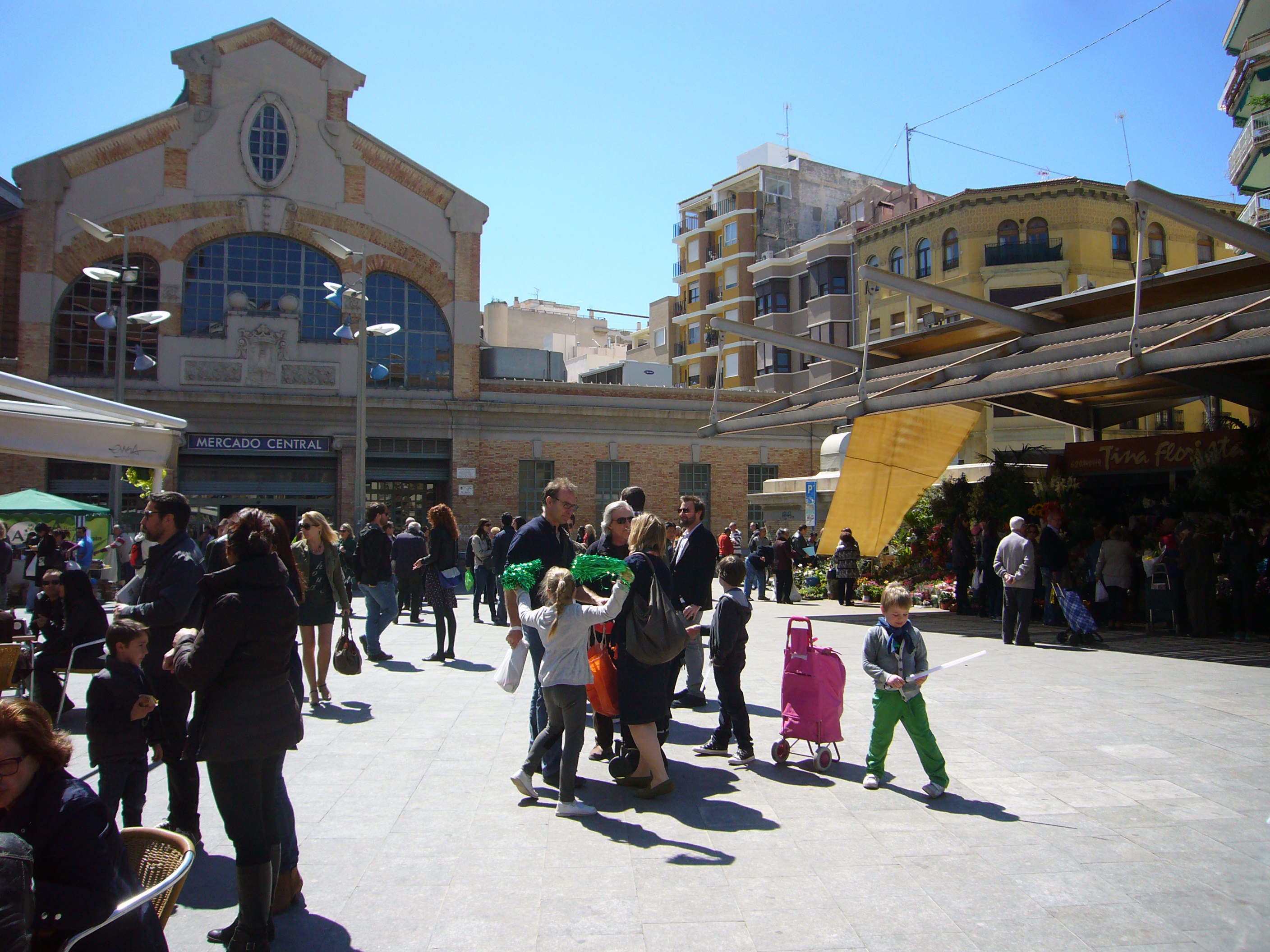 May 25 Square, Alicante, Spain.